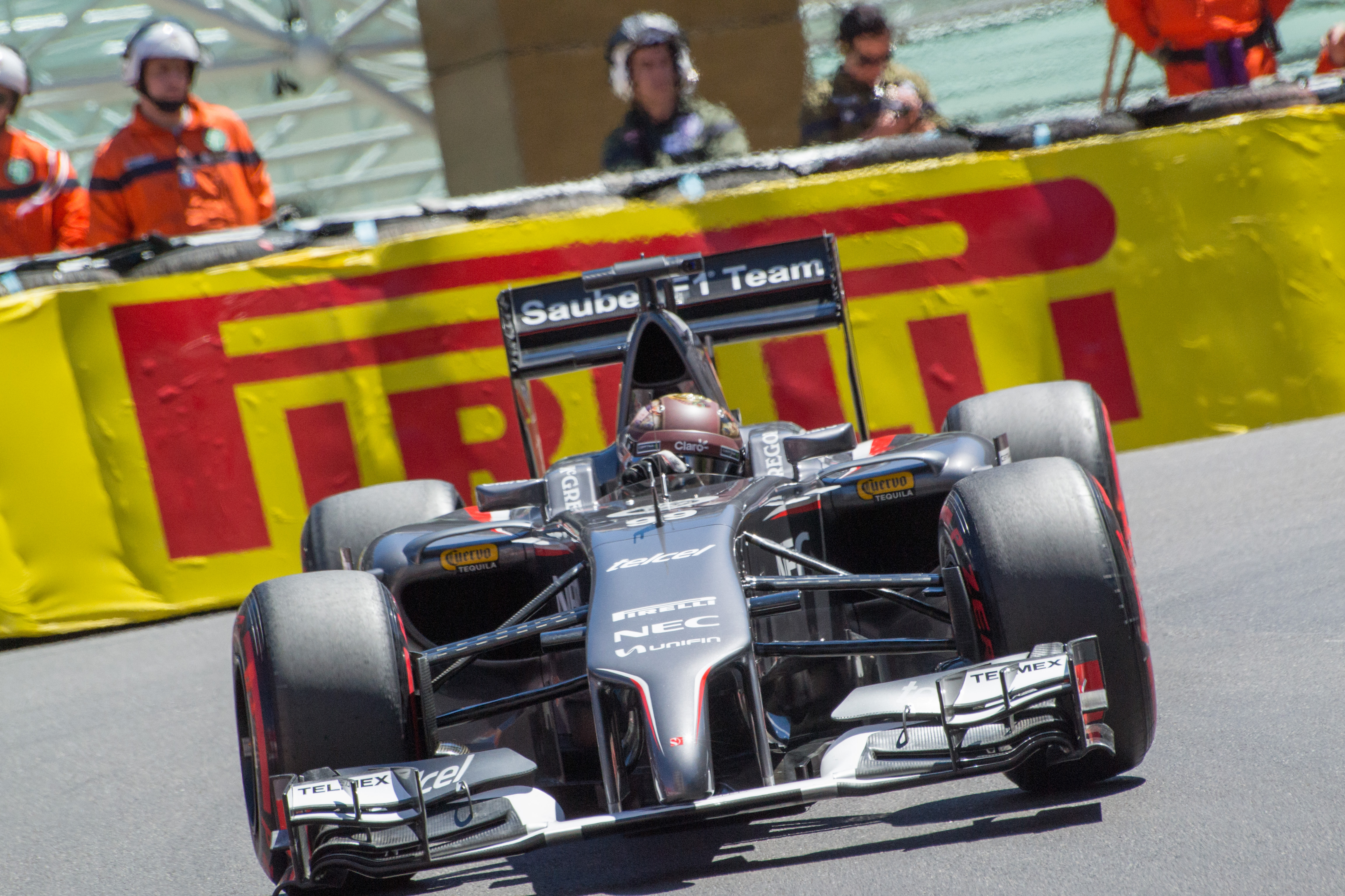 Adrian Sutil - Sauber C33 - 2014 Monaco Grand Prix